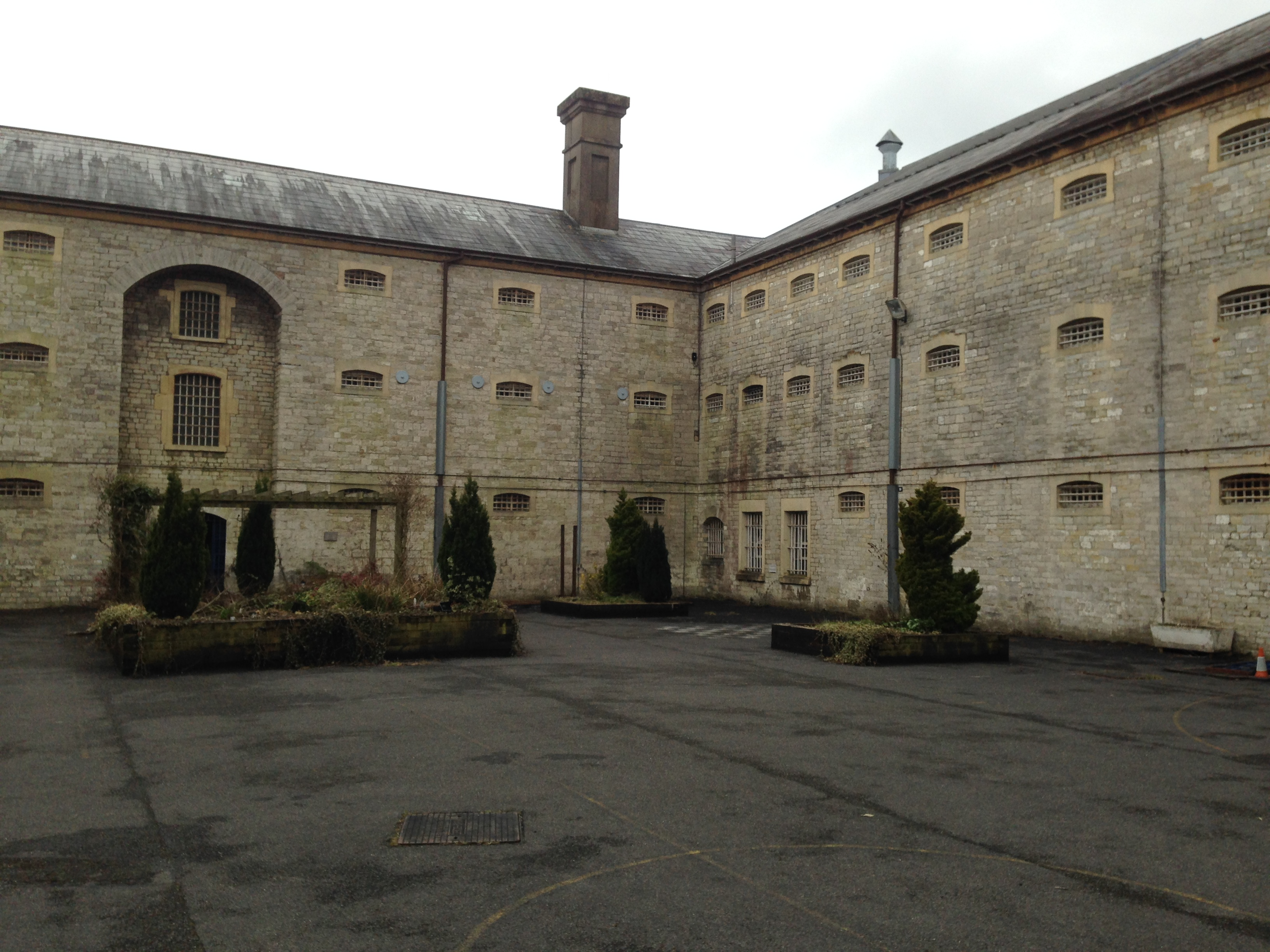 Photos of HMP Shepton Mallet taken March 2018